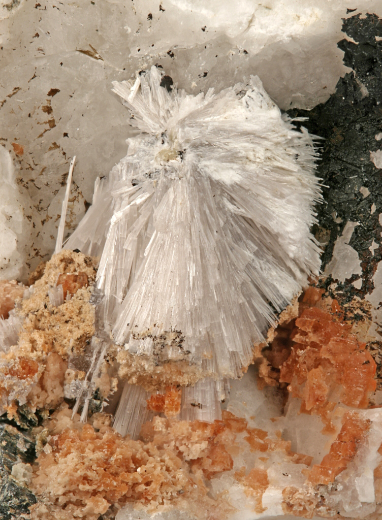 Adamsite-(Y) Locality: Poudrette quarry (Demix quarry; Uni-Mix quarry; Desourdy quarry; Carrière Mont Saint-Hilaire), Mont Saint-Hilaire, La Vallée-du-Richelieu RCM, Montérégie, Québec, Canada FOV ~ 1.3 cm high. Via Jean-Pierre Beckerich. MOB coll. The orange/red stuff is granular rhodochrosite with a few small rhombs - listed for completeness. There may also be shomiokite-(Y) but if so, it's behind the adamsite - see side view in child photo. Another child photo shows another group with orthorhombic looking xls. Perhaps more shomiokite - but I suspect not in this case.